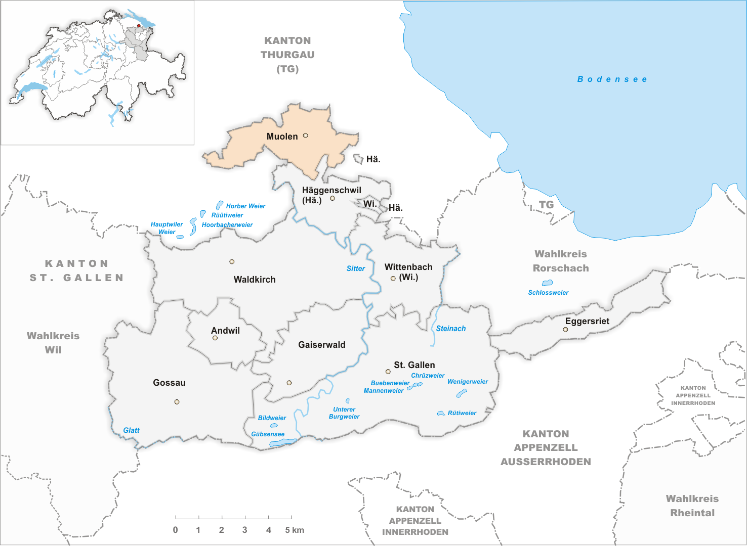 Municipality Muolen